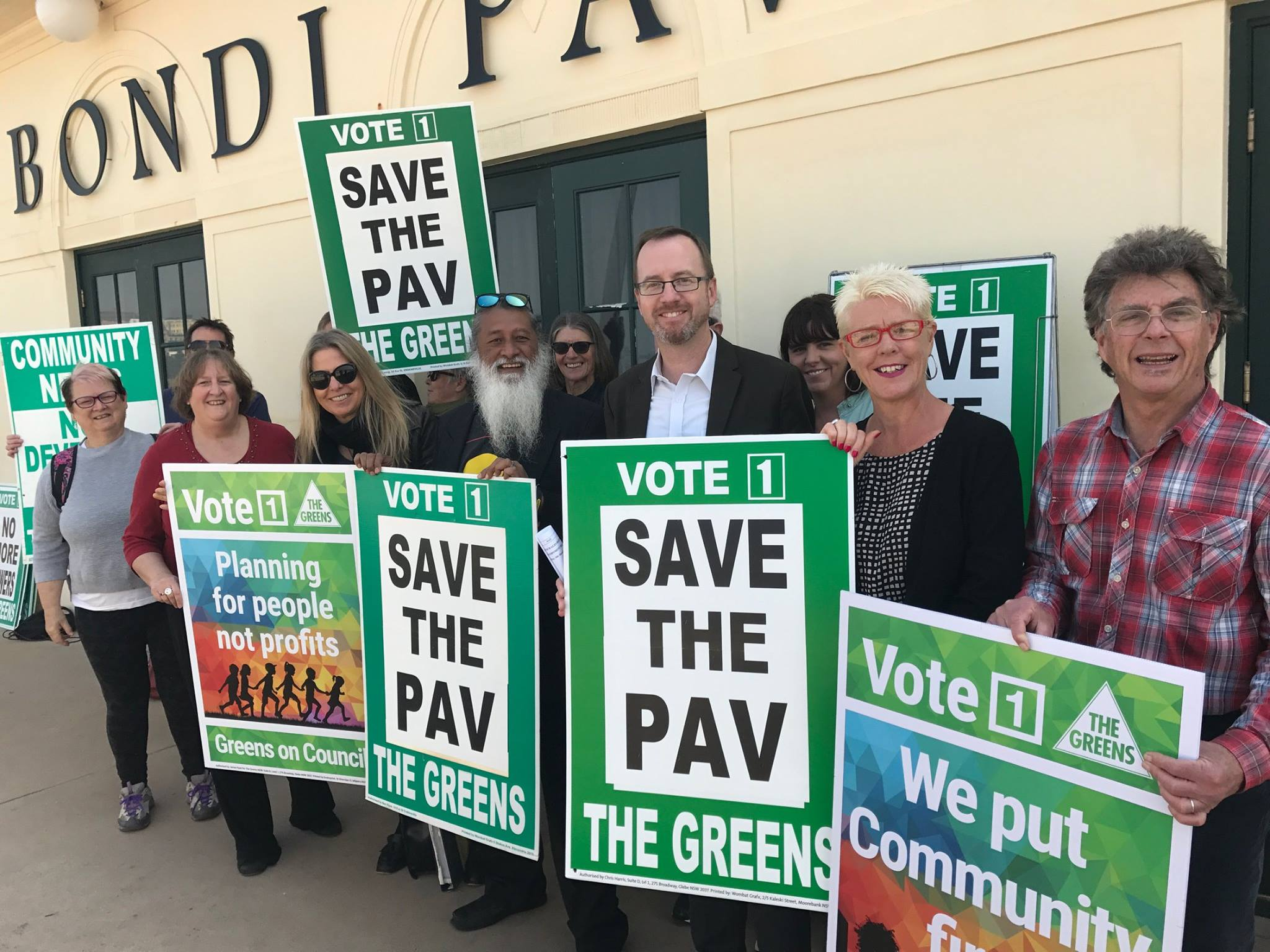 David Shoebridge with Save the Bondi Pavilion supporters